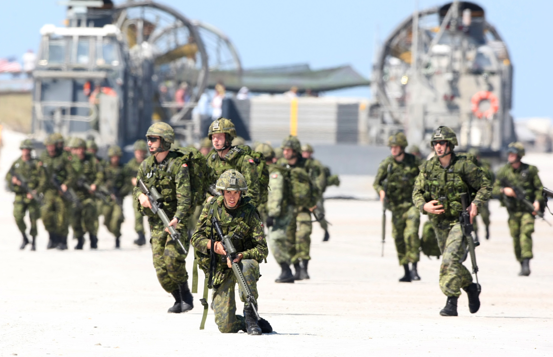 MAYPORT BEACH, Fla. (April 25, 2009) Canadian Army soldiers assigned to Alpha Company, 3d Battalion, 22d Regiment of Special Purpose Marine Air Ground Task Force-24 depart a U.S. Navy landing craft air cushion (LCAC) and deploy onto Mayport Beach during a Unitas Gold amphibious assault exercise. Maritime forces from Brazil, Canada, Chile, Colombia, Ecuador, Germany, Mexico, Peru, U.S., and Uruguay are participating in UNITAS Gold, which provides the opportunity to conduct and integrate joint and combined land, maritime, coast guard and air operations in a realistic training environment. The exercise is taking place April 20-May 5 off the coast of Florida. (U.S. Marine Corps photo by CWO2 Keith A. Stevenson/Released)